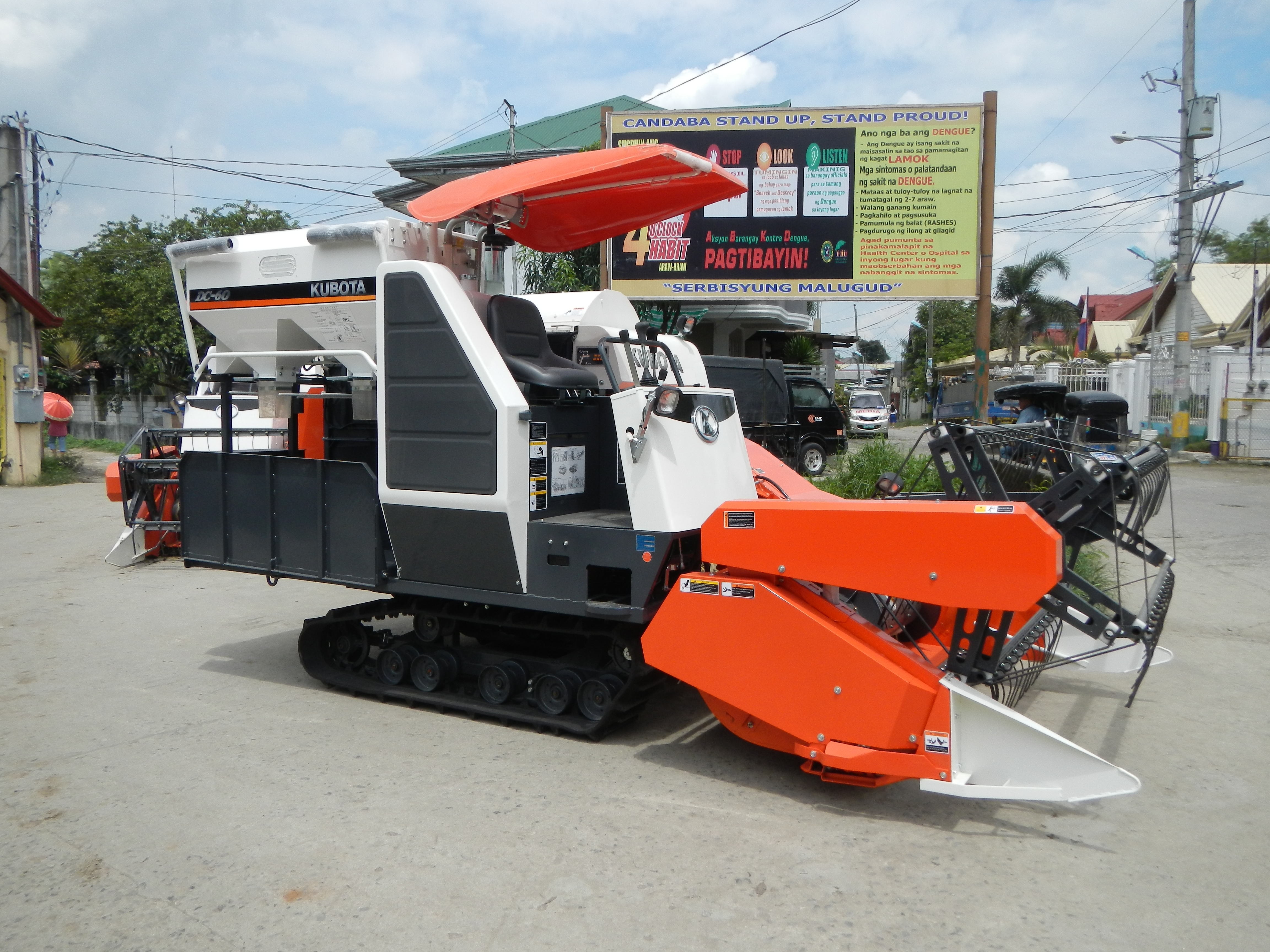 Kubota DC-60, Kubota rice harvester Kubota in FACOMA estate at Candaba, Pampanga Barangay Bahay Pare, Candaba, Pampanga.